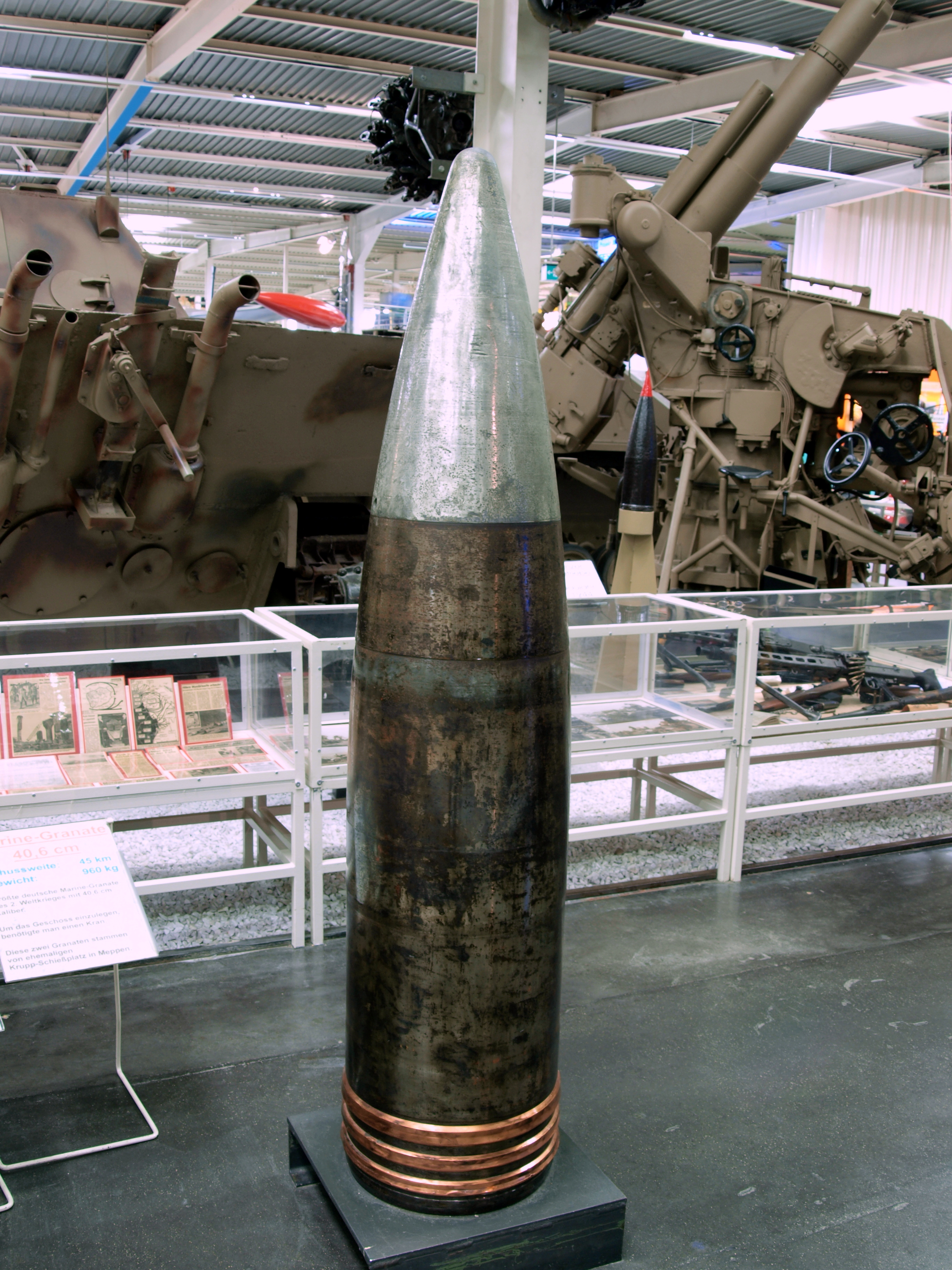 Photographed at the Auto & Technic museum Sinsheim.